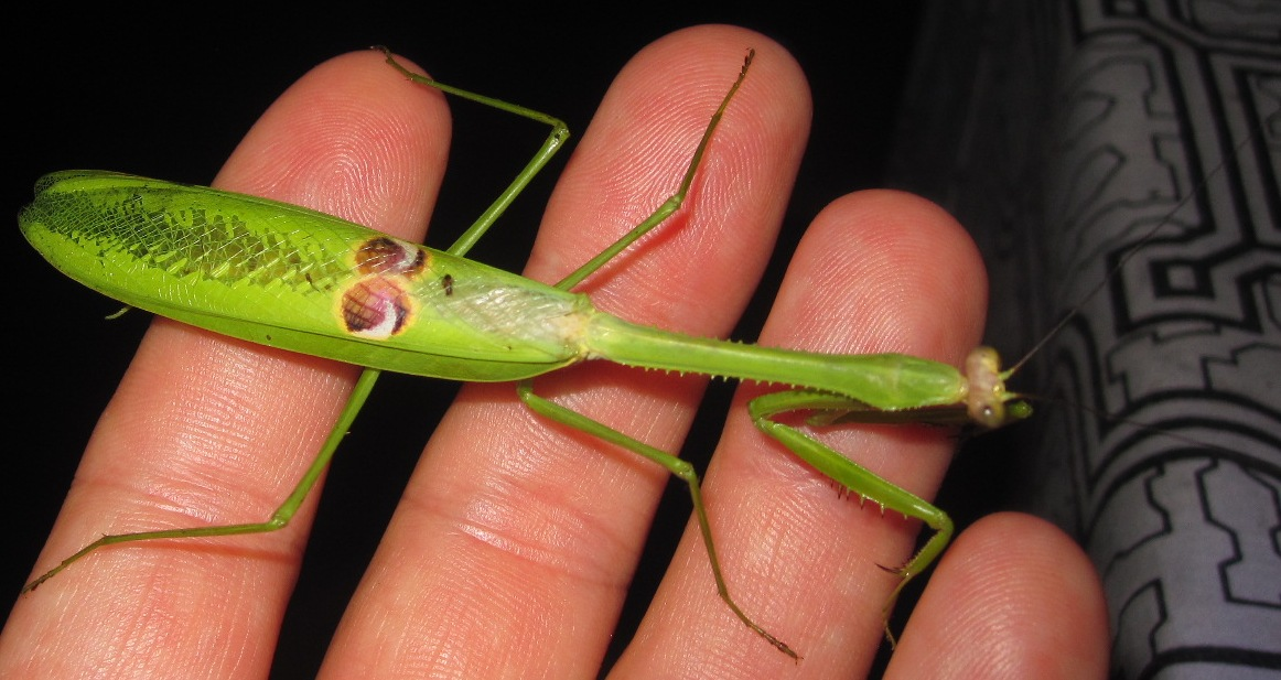 Stagmatoptera supplicaria (order: Mantodea, family: Mantidae, subfamily: Stagmatopterinae, genus: Stagmatoptera, species: S. supplicaria)